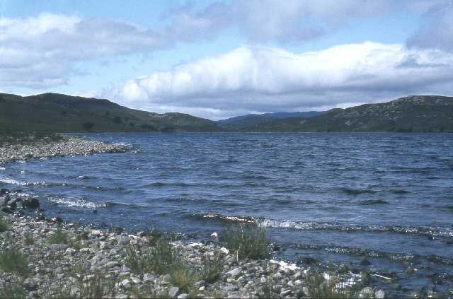 Loch Bruicheach on a breezy day. This loch (pronounced Bree-ach) is relatively isolated; it lies between Glen Convinth and Strathglass. In its northern inlet there is - or rather was, some 5000 years ago - a crannog (a fortified dwelling) on a small island.